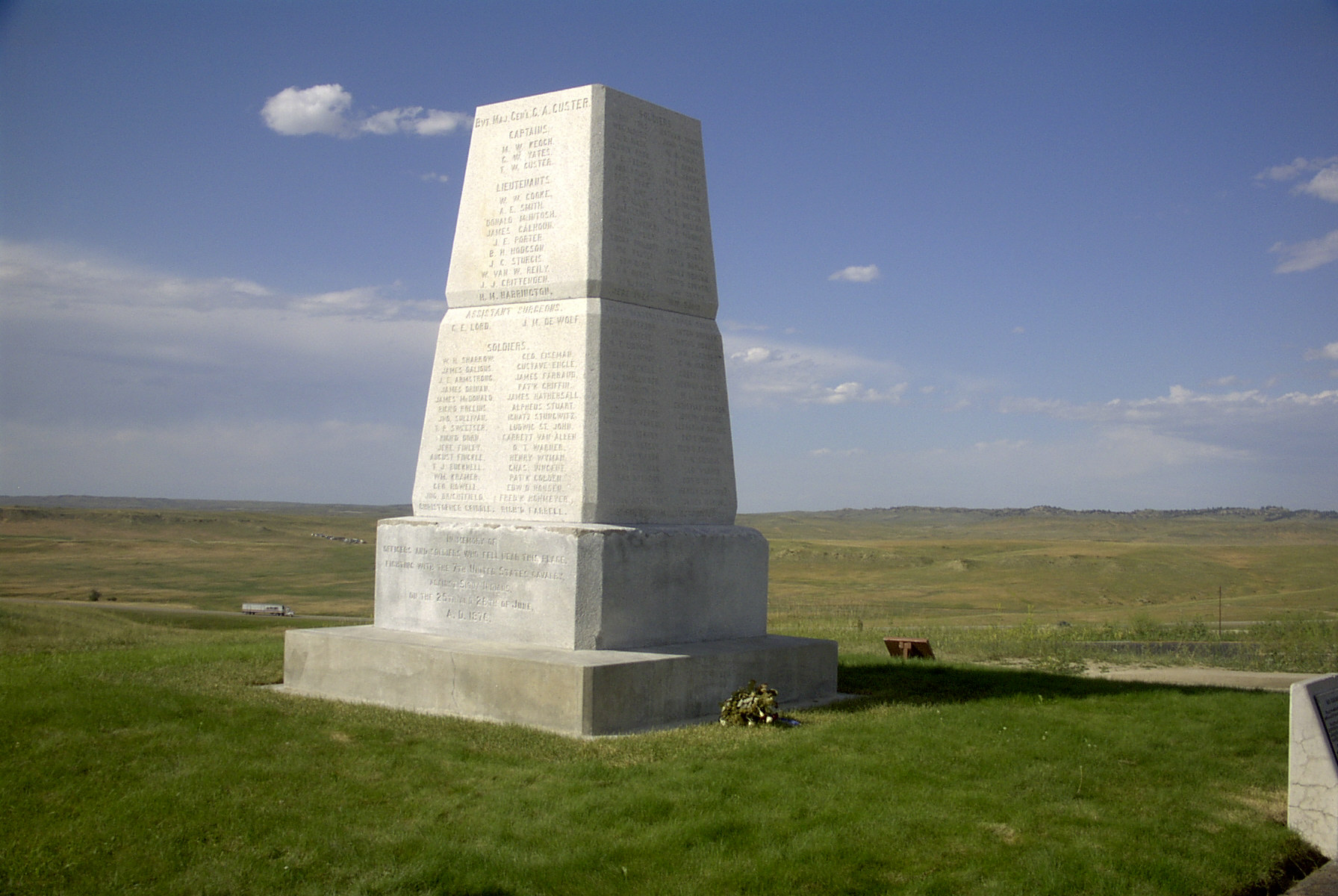 Little Bighorn memorial obelisk by Durwood Brandon